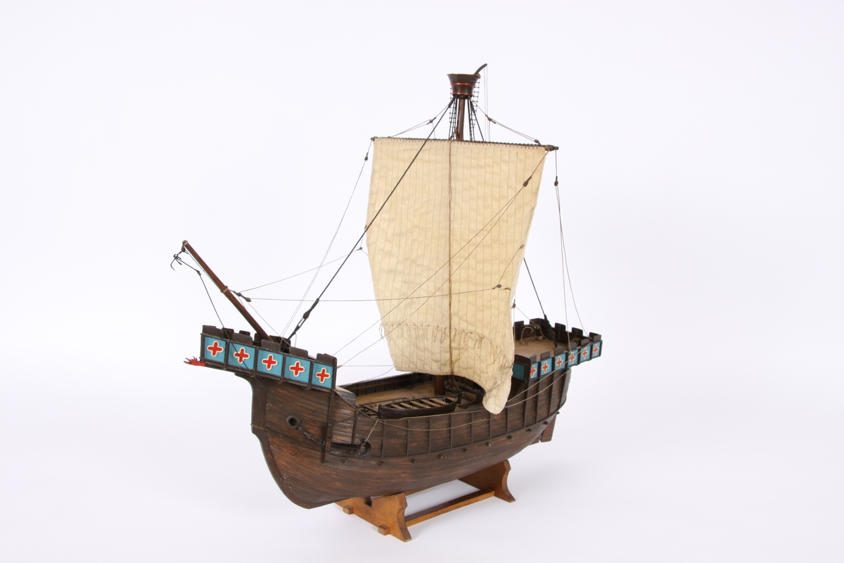 Model of holk (hulk) - Baltic vessel from XV century. Exhibit in National Maritime Museum in Gdańsk, Poland